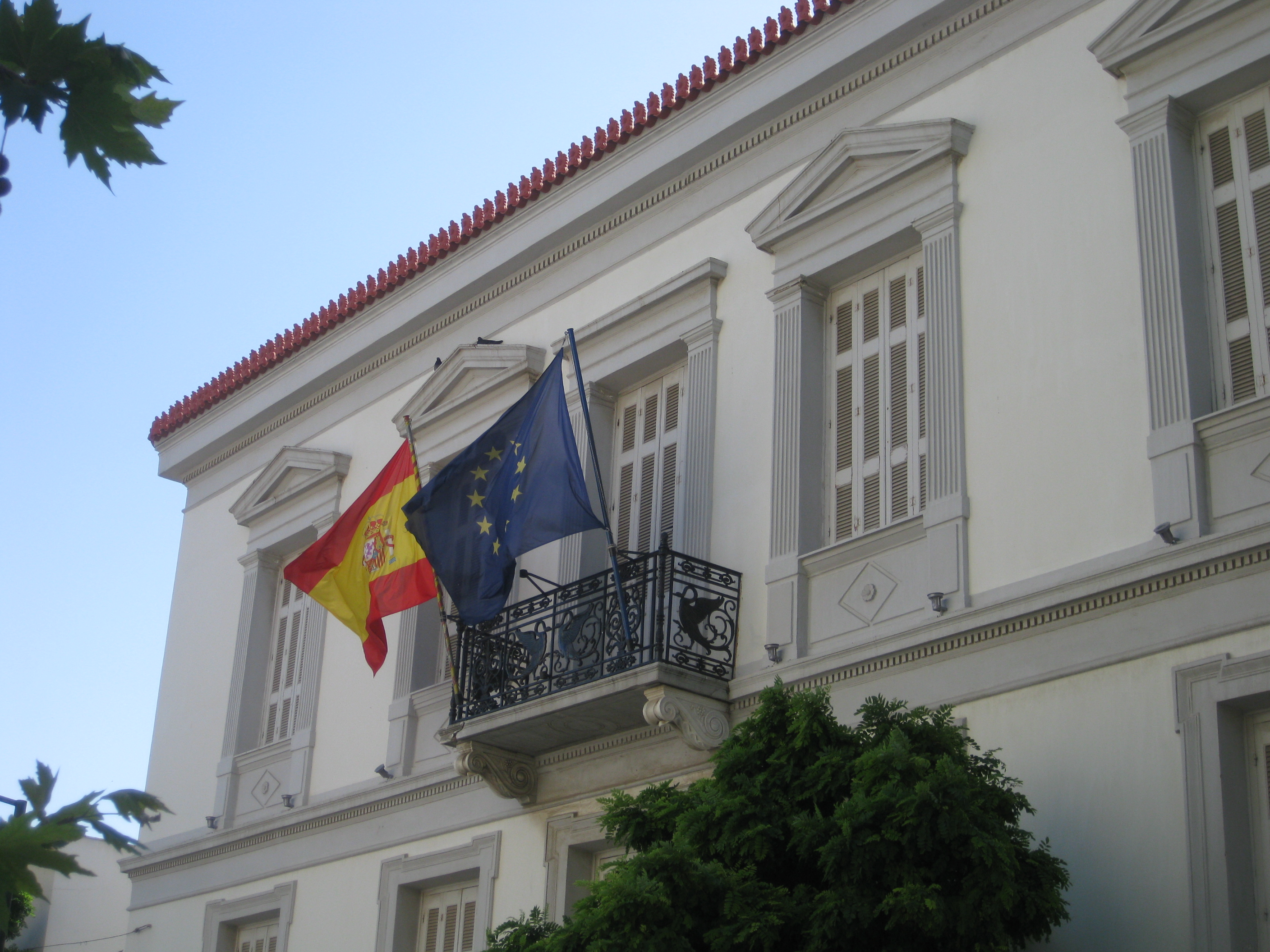 Today the Spanish Embassy in Greece. A building designed by Ernst Ziller in Athens.